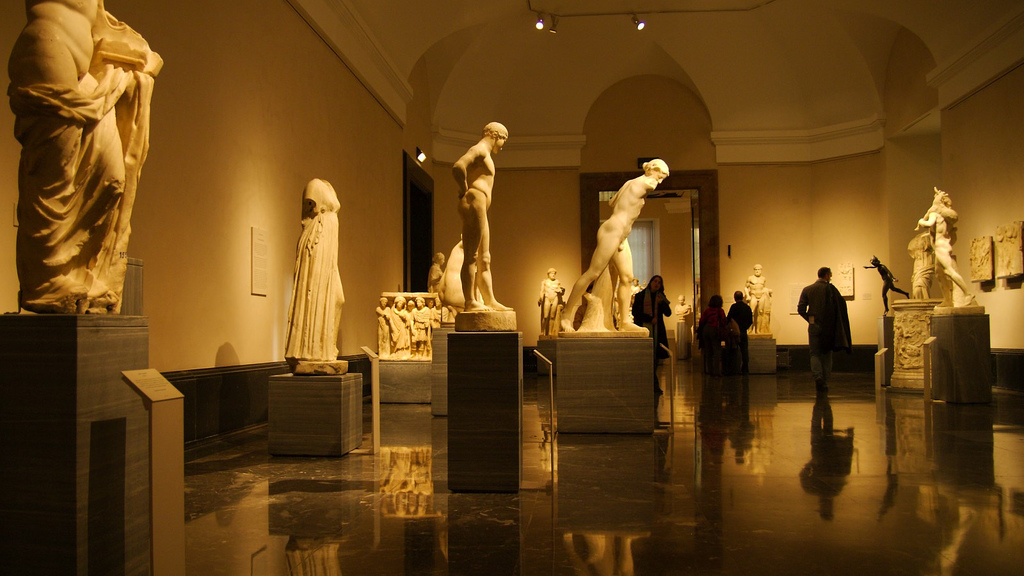 Interior of the Prado Museum in Madrid (Spain).